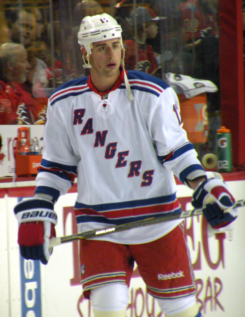 New York Rangers forward Brandon Dubinsky prior to a National Hockey League game against the Calgary Flames, in Calgary.